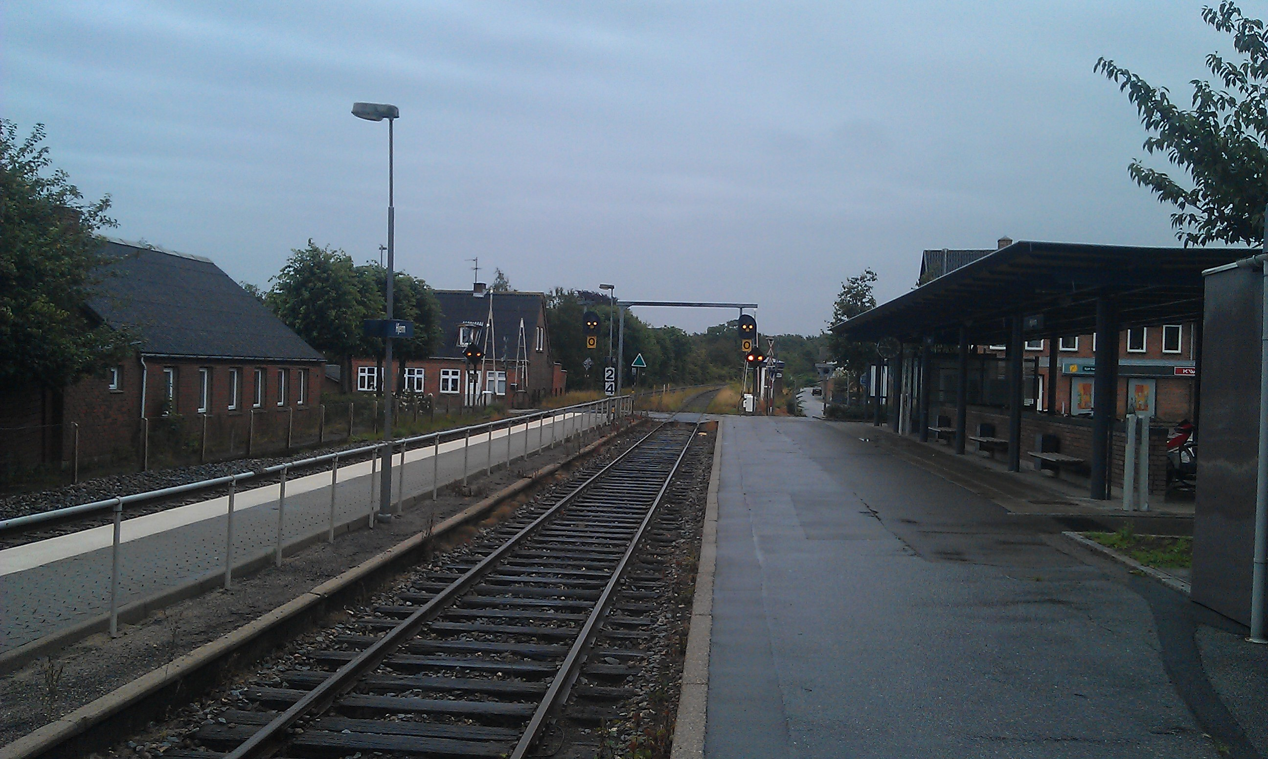 Picture of Hjerm station